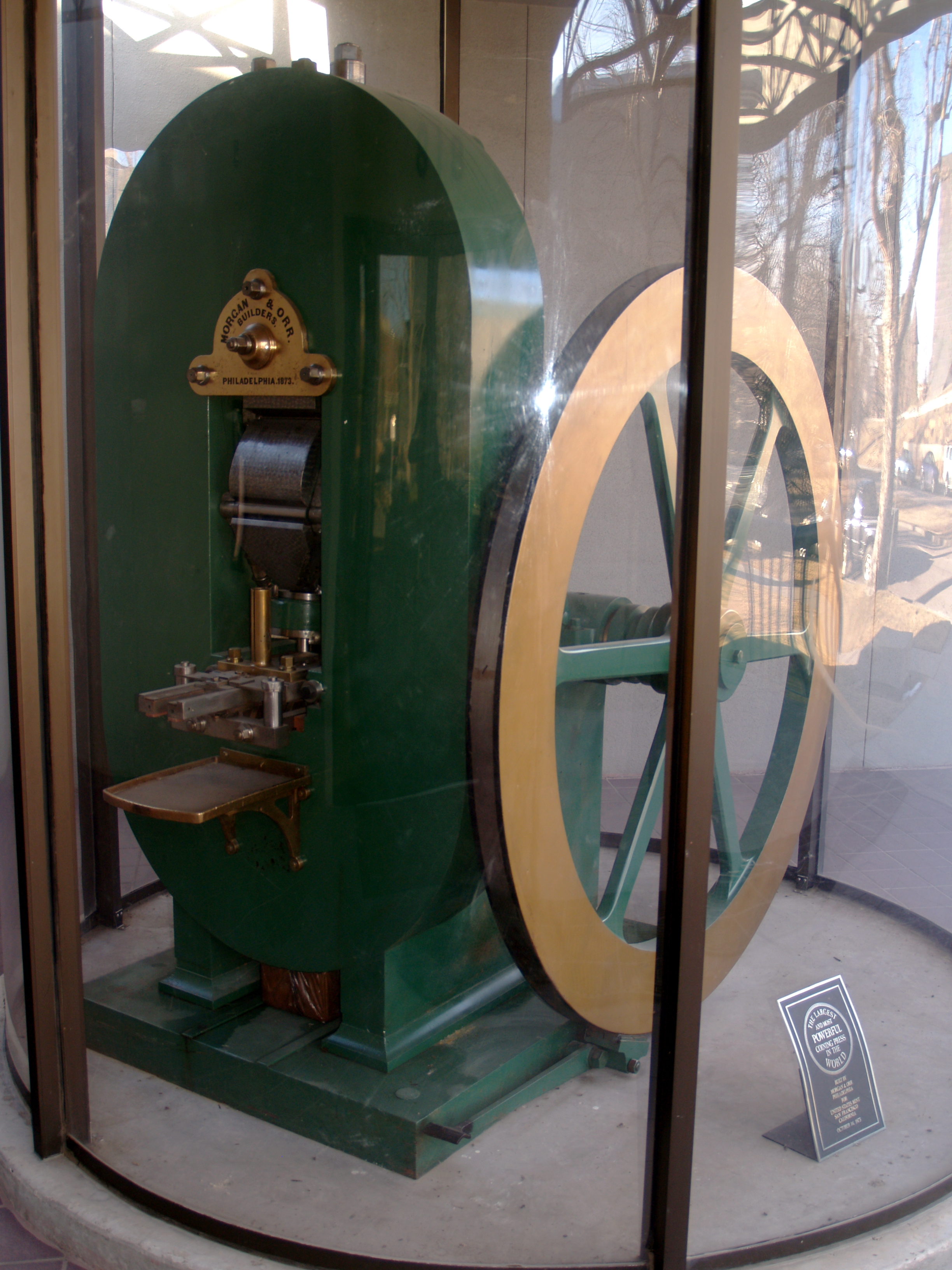 According to the plaque, this is the largest and most powerful coining press in the world, built for the San Francisco Mint by Morgan & Orr, October 14, 1873.